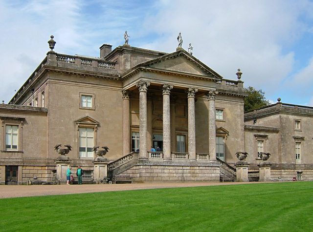 Stourhead House. Owned by the National Trust, Stourhead House is close by the famous gardens.